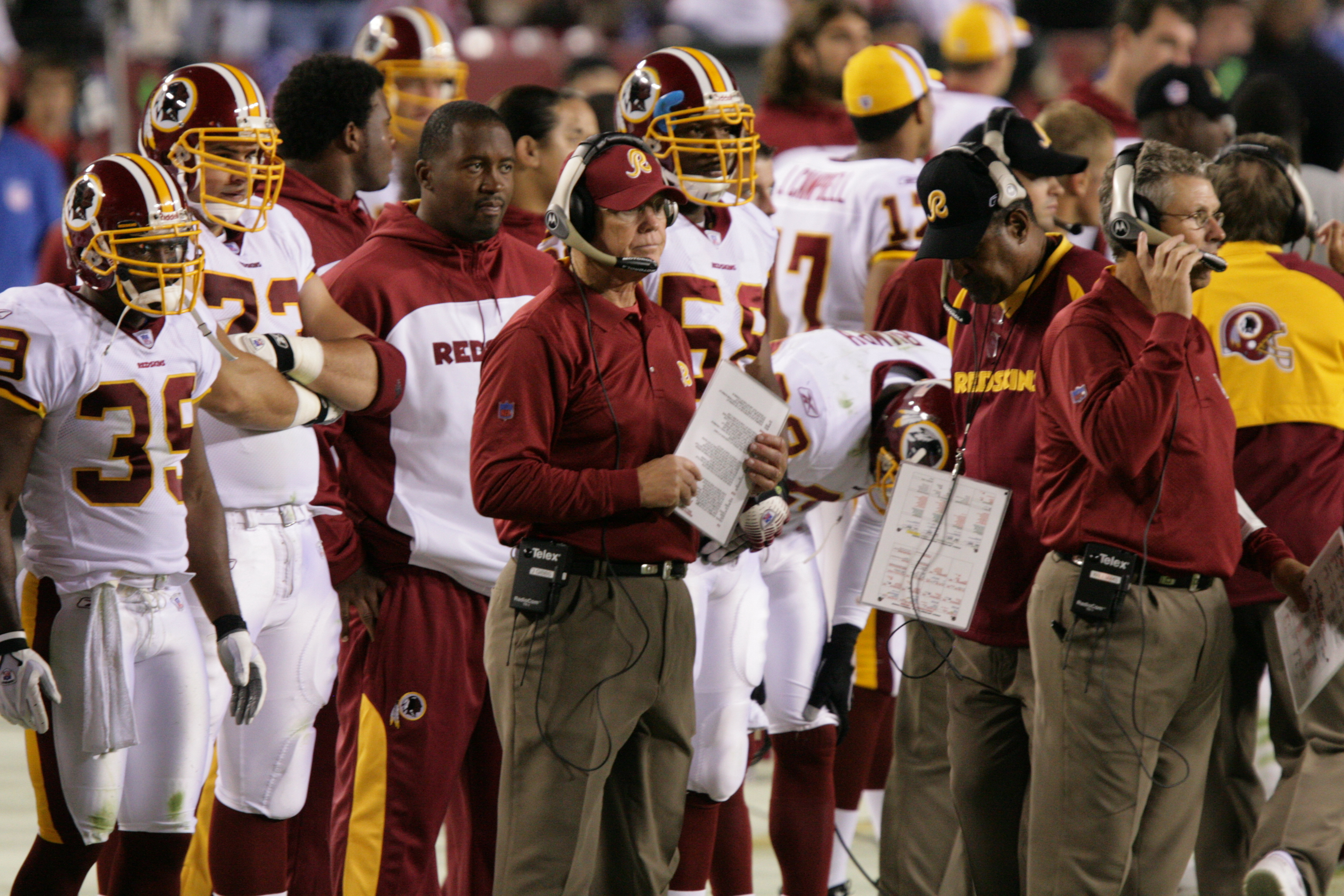 Head Coach Joe Gibbs, who coached the Redskins from 1981-1992 and then again from 2004-2007